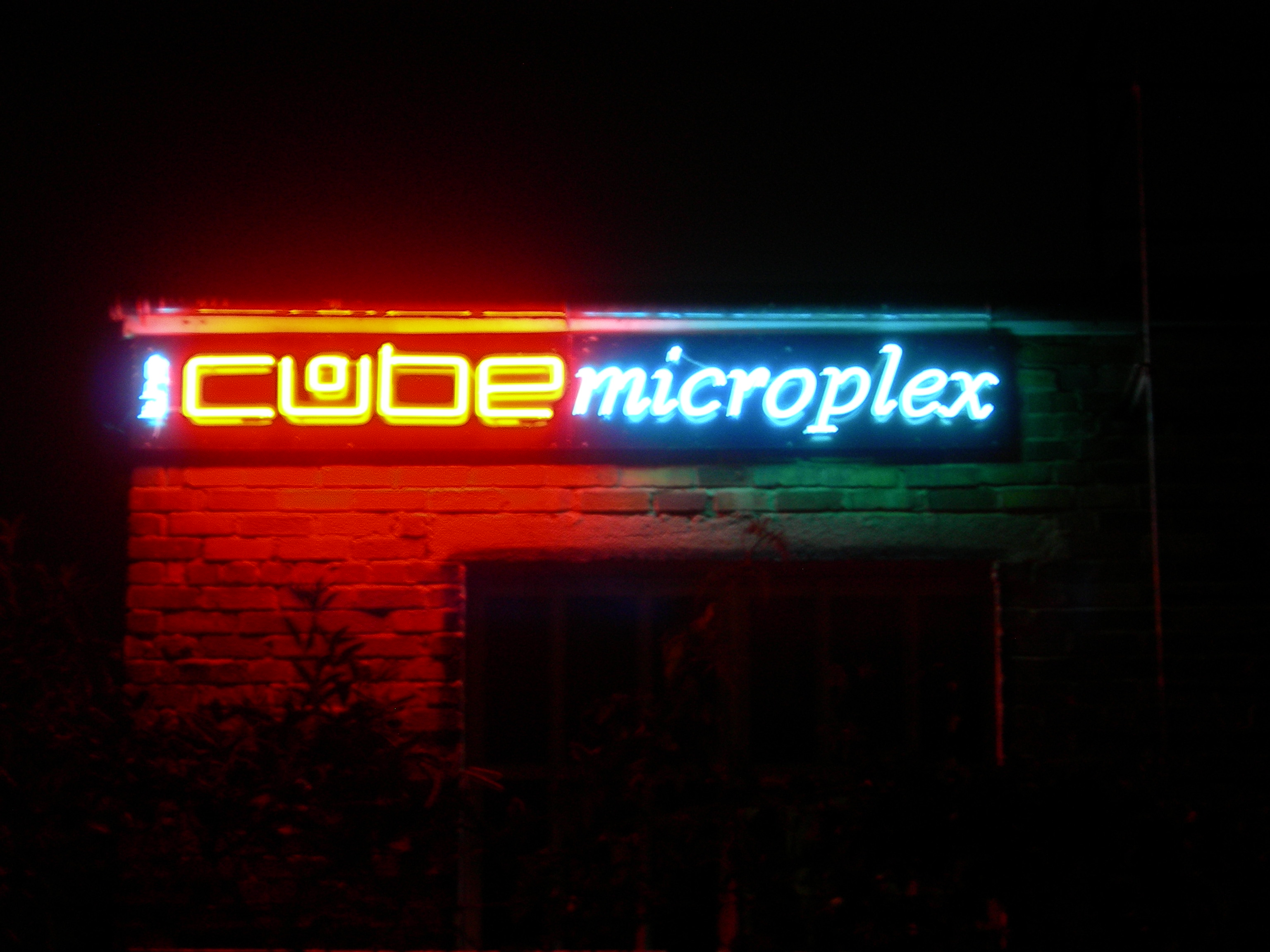 Exterior shot of the sign for the Cube Microplex in Bristol, England.